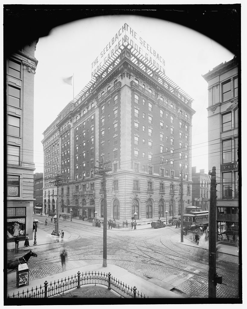 A photo of the Seelbach Hotel and the surrounding neighborhood in 1910.